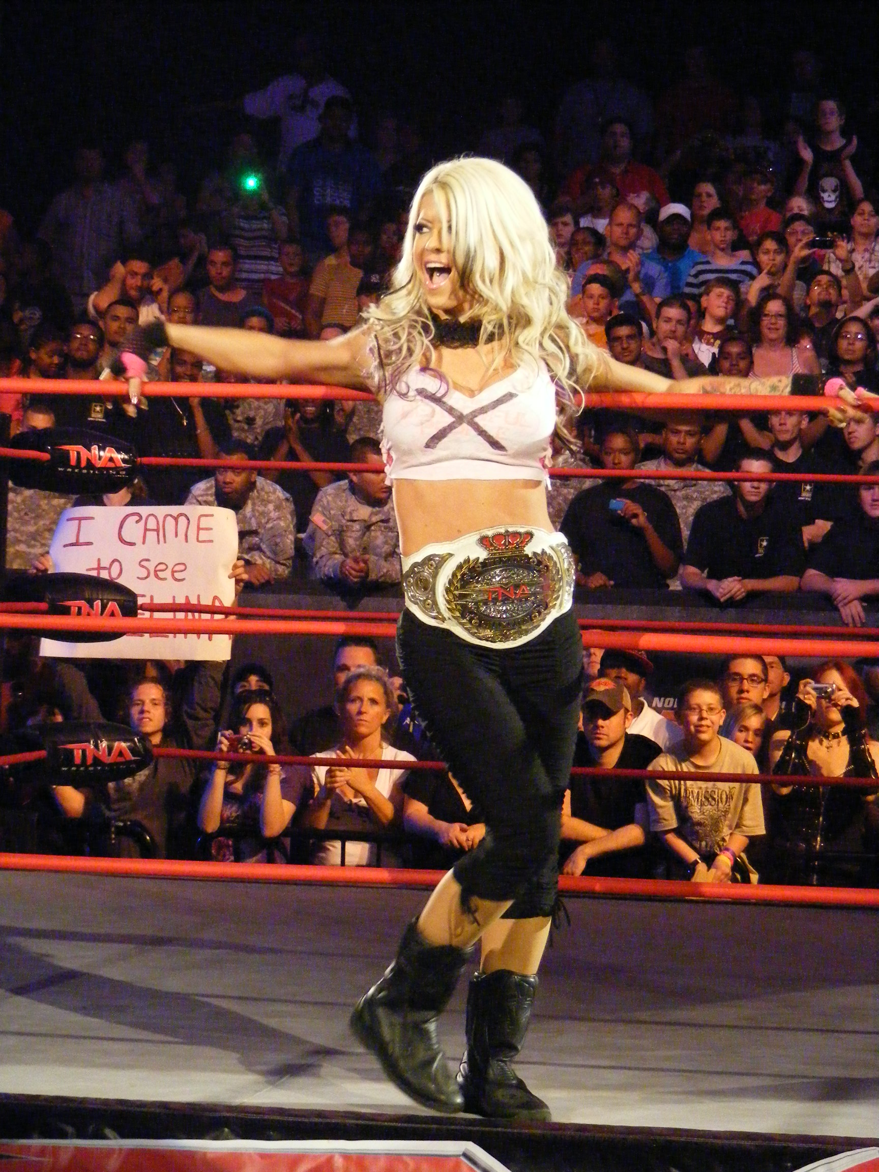 Angelina Love, posing with her newly won TNA Knockouts Championship at an Impact taping before a match.